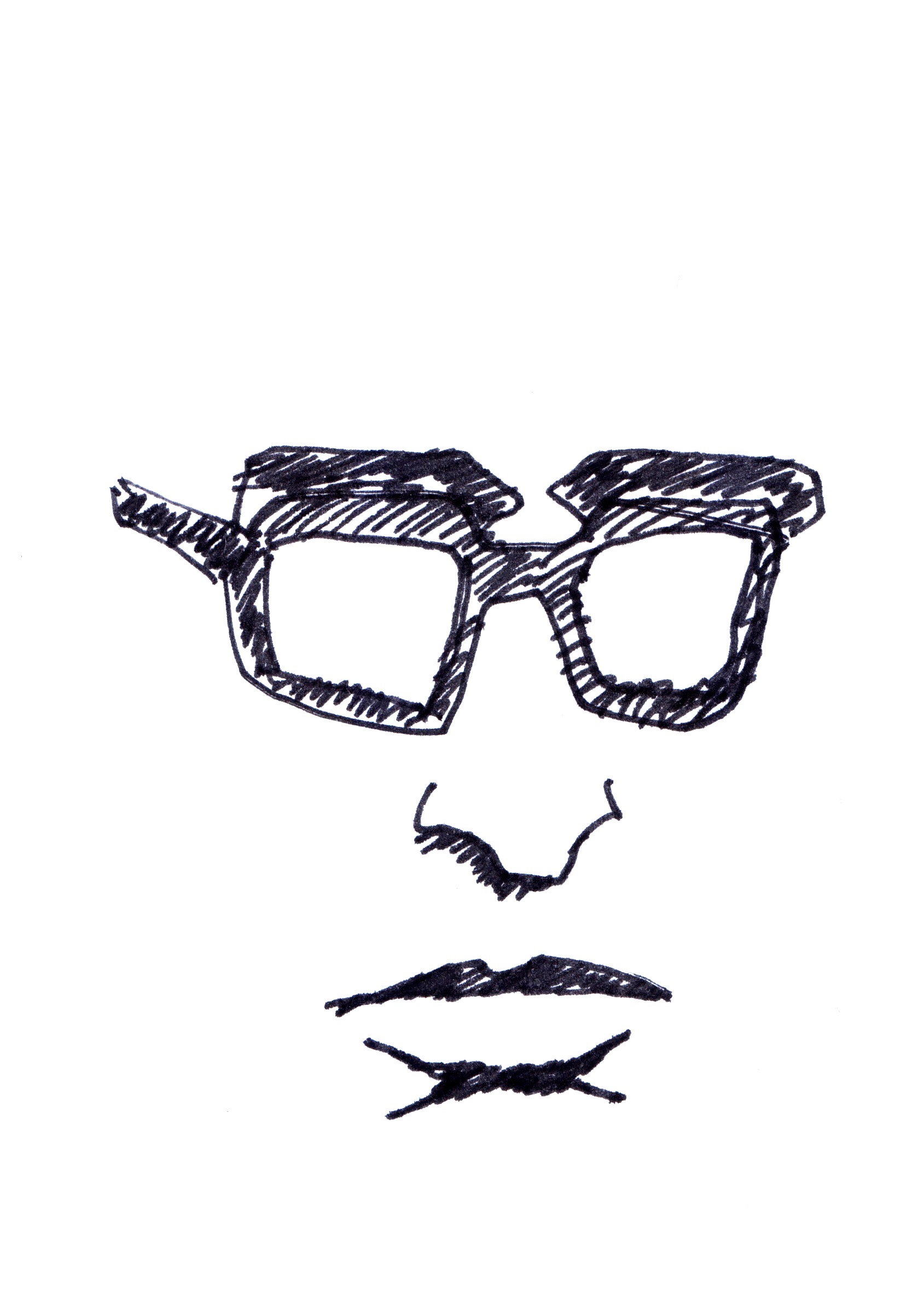 Portrait of Emil Ruder (1914-1970)